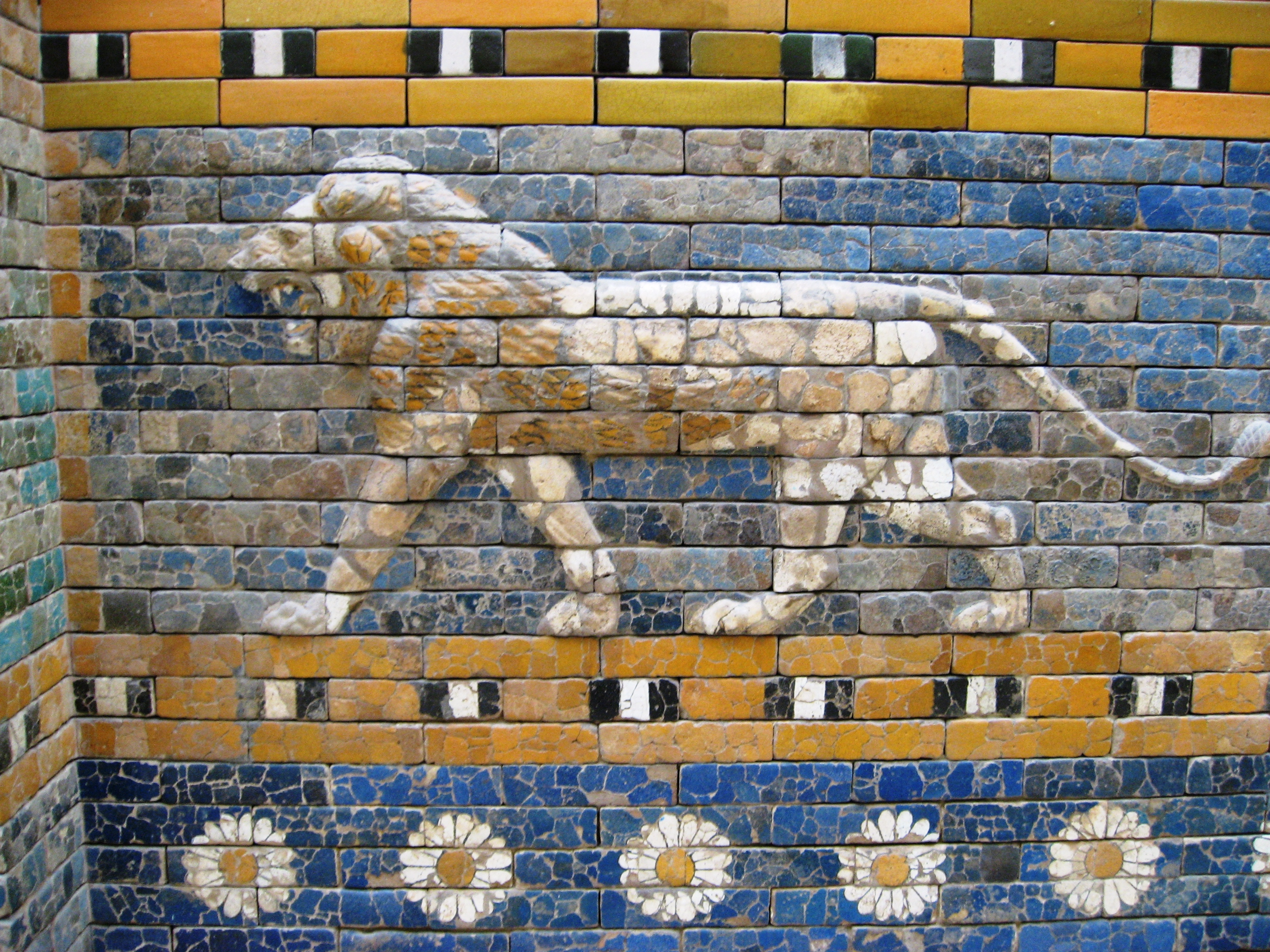 lions of the Procession street towards the Ishtar Gate, at the Pergamon Museum in Berlin.